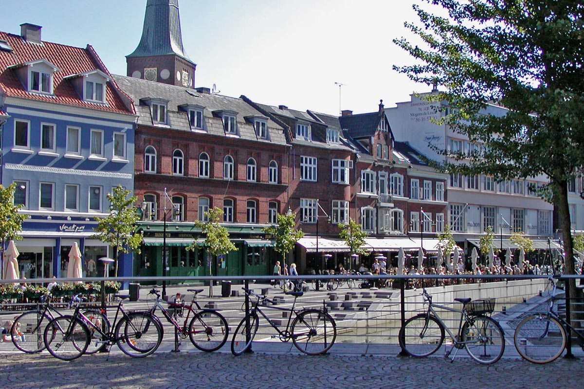 Photo of cafes and bicycles in Aarhus Denmark